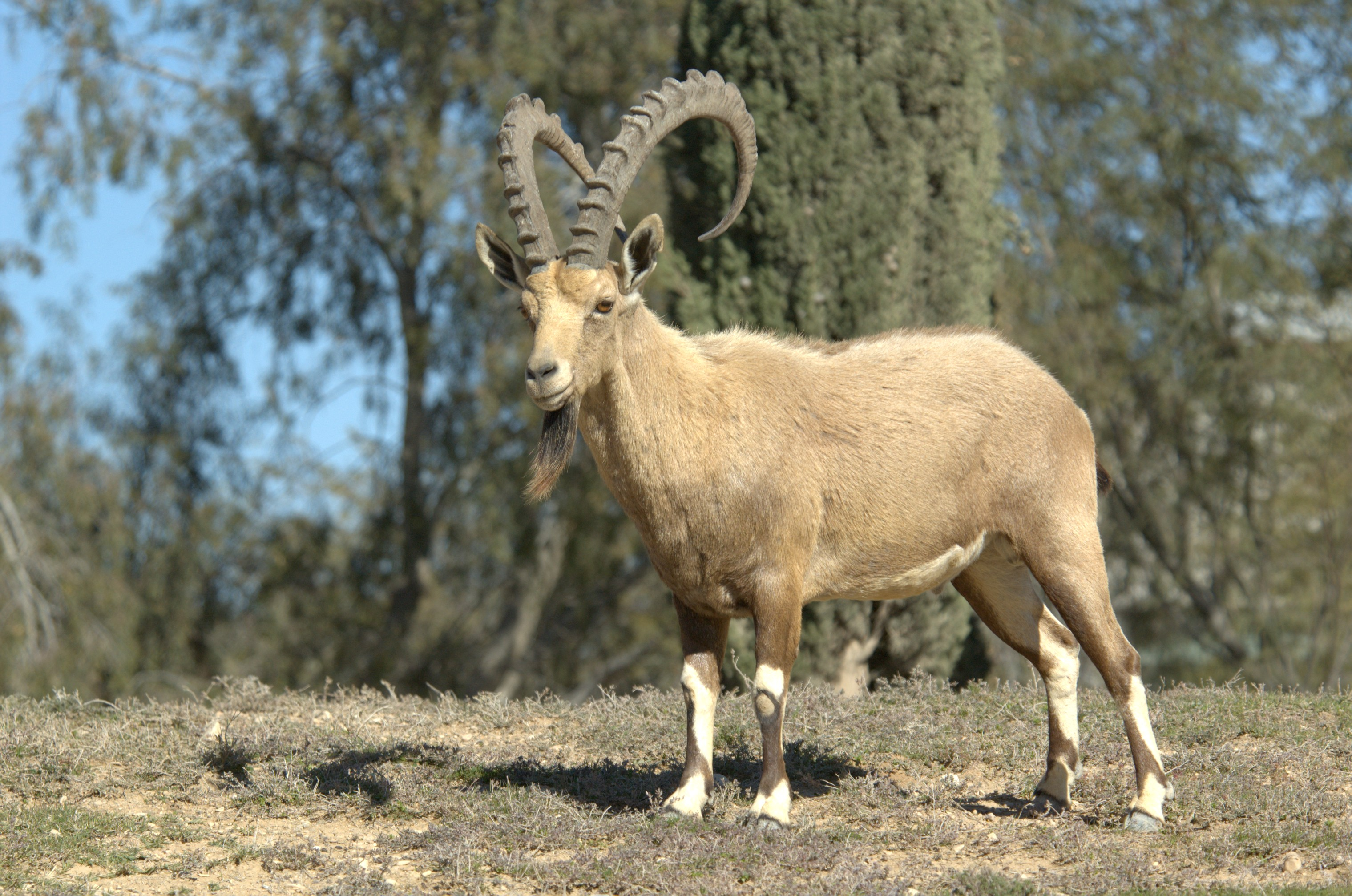 Capra